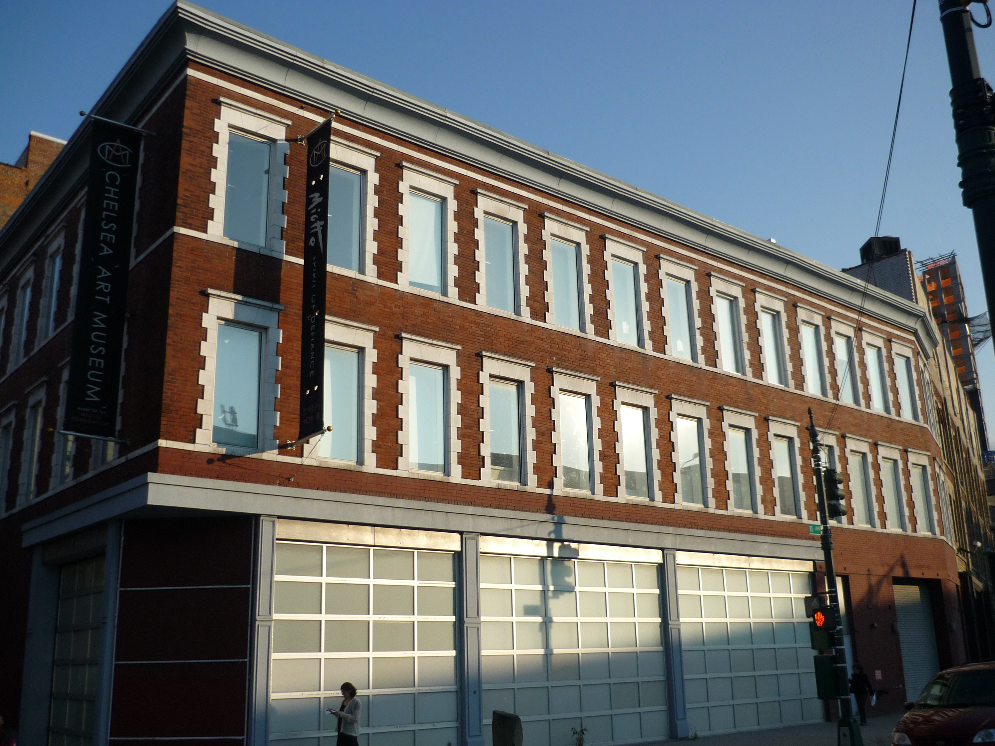 This photo is of Wikis Take Manhattan goal code E6, Chelsea Art Museum.